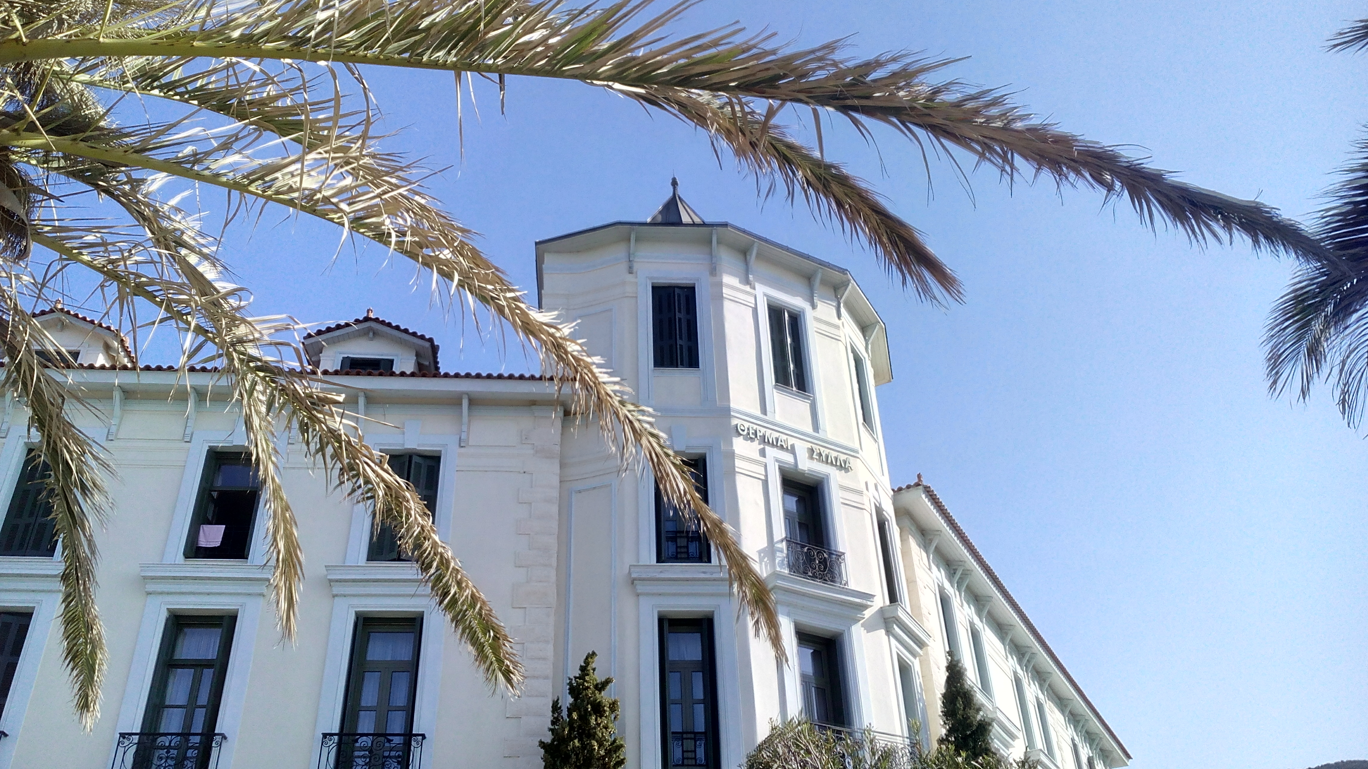 Located in Loutra Aidipsou.